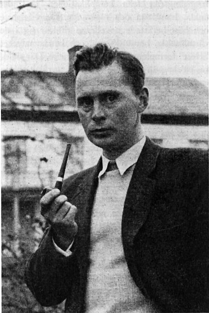 A portrait of the author Peter Nisser.